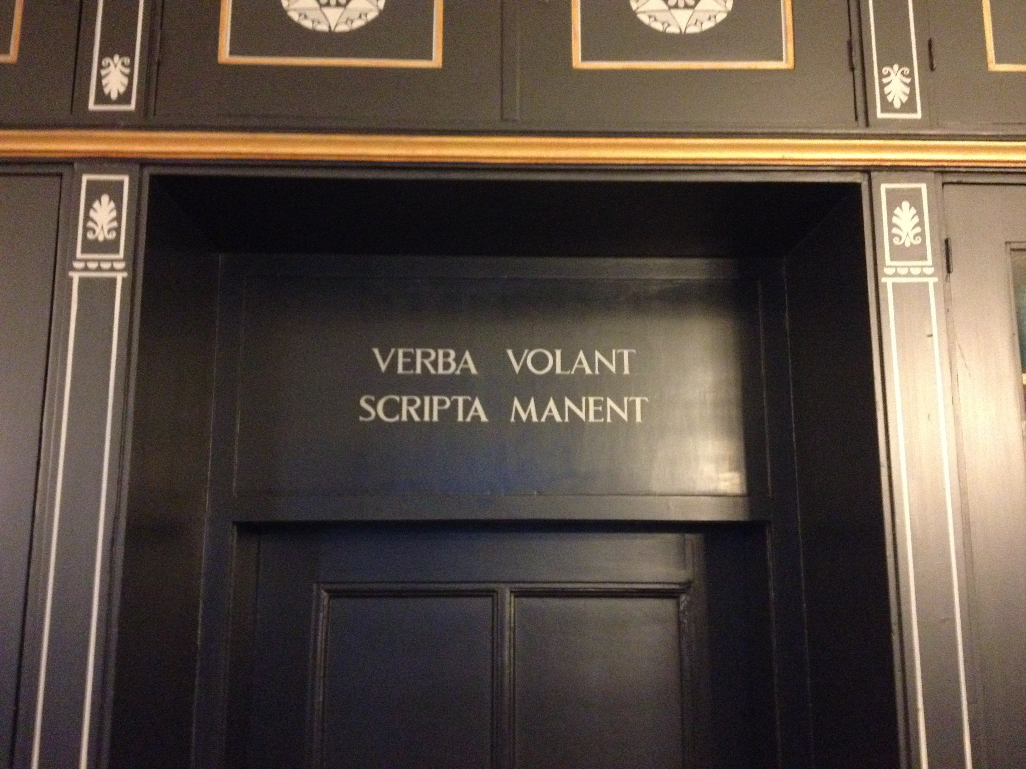 Library of the Frauenklinik in der Maistraße, Munich with an inscription above the right door: VERBA VOLANT SCRIPTA MANENT [Verba volant, scripta manent]